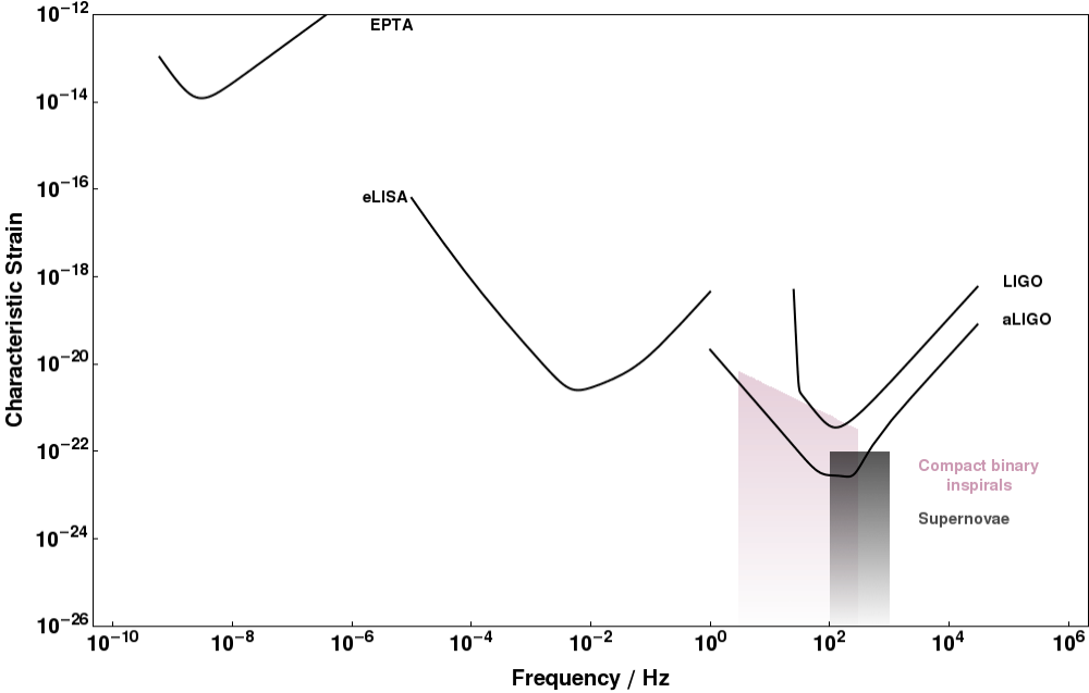 Noise curves of the gravitational-wave detectors LIGO and Advanced LIGO as a function of frequency together with the characteristic strains of the potential gravitational-wave signals they are designed to measure.